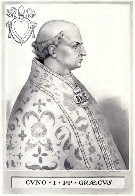 This illustration is from The Lives and Times of the Popes by Chevalier Artaud de Montor, New York: The Catholic Publication Society of America, 1911. It was originally published in 1842.